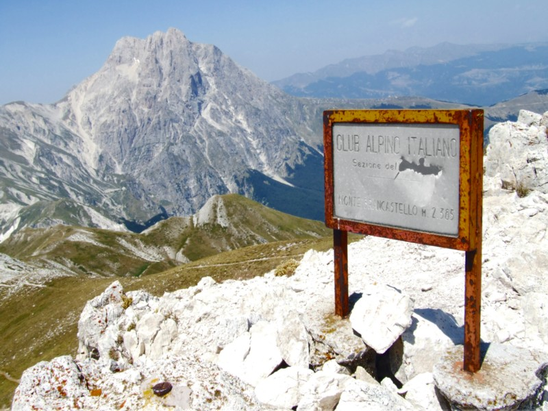 View from Monte Brancastello